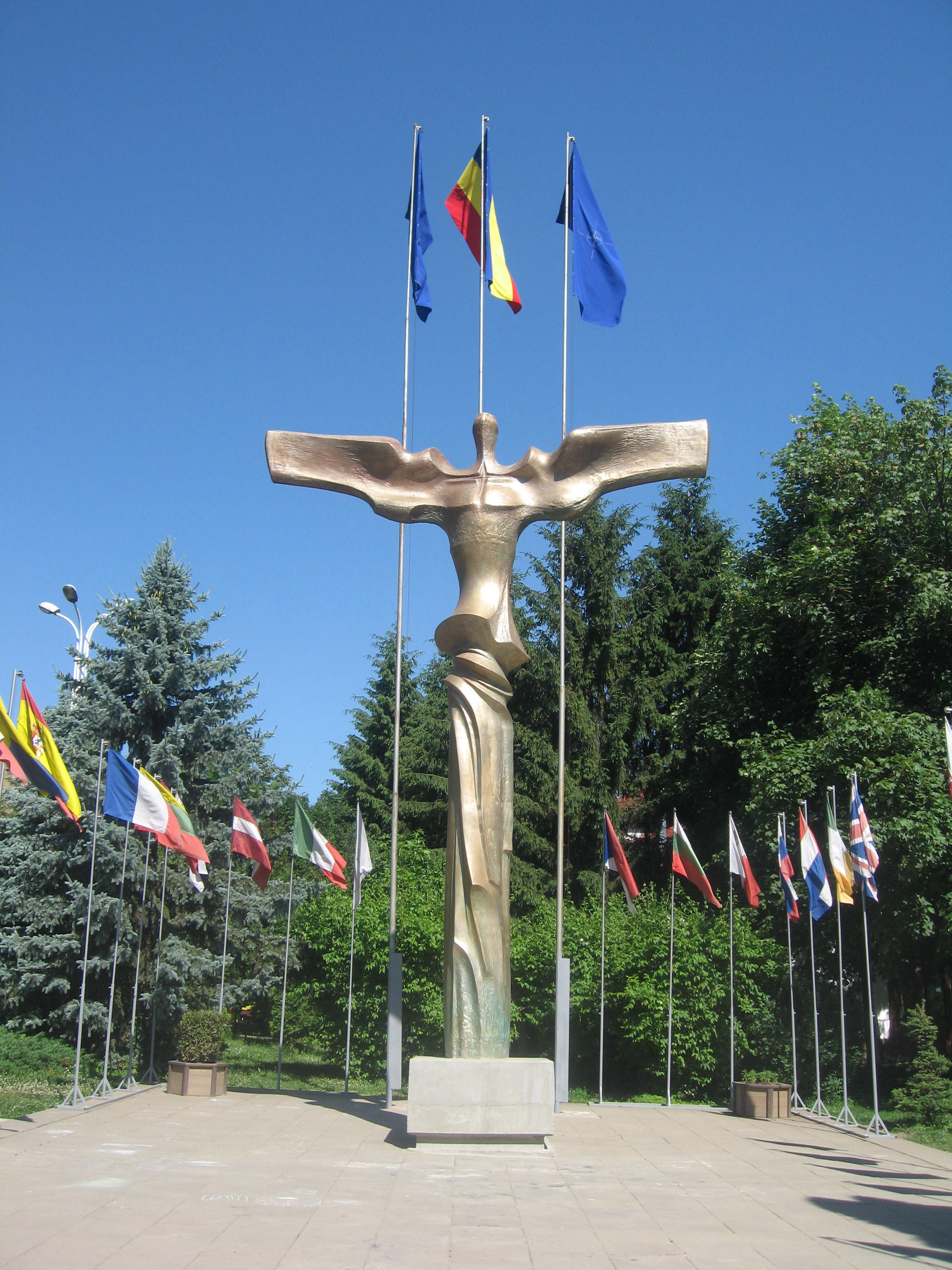 Bucovina înaripată Statue in Suceava.